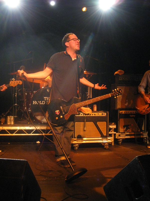 Craig Finn peforming with The Hold Steady at The Junction, Cambridge, UK, on 17 February 2011.